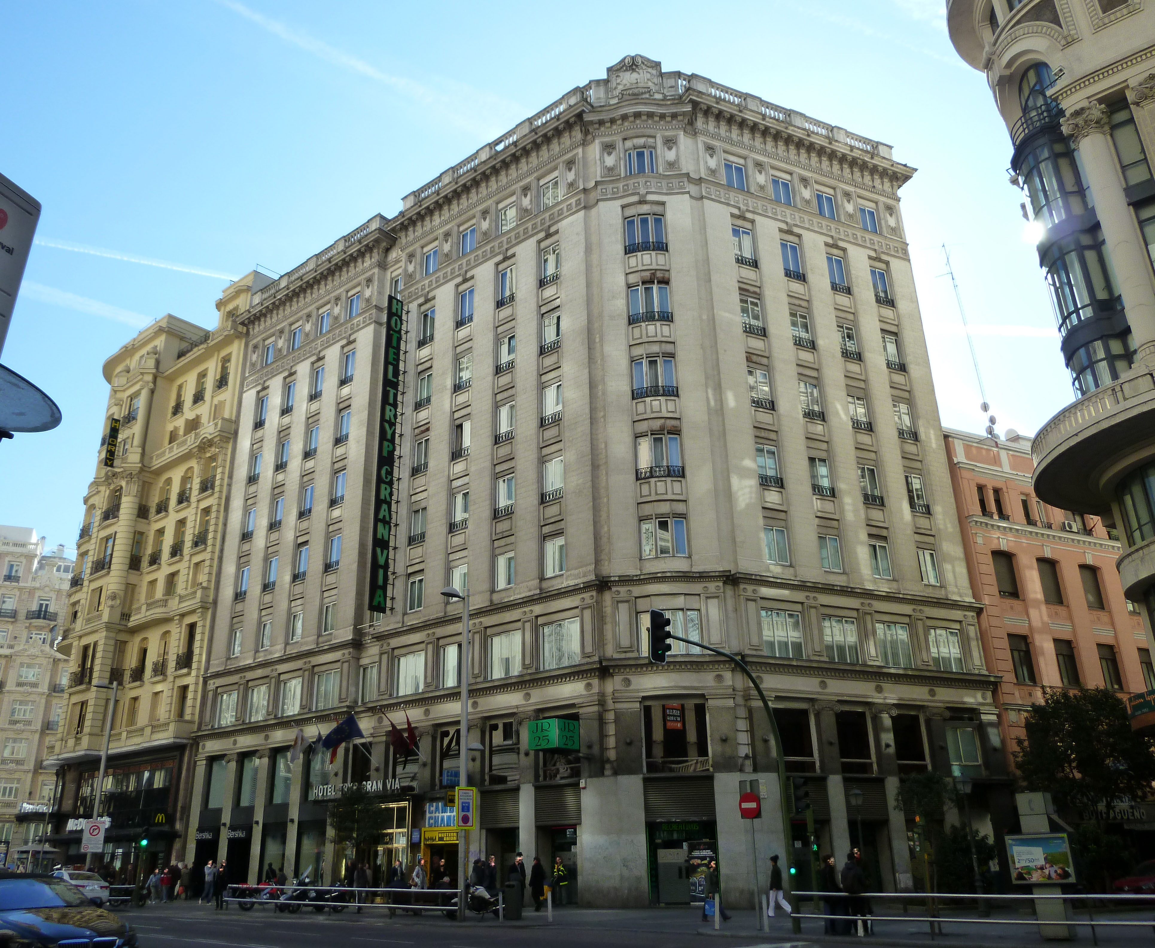 Façade of Hotel Tryp Gran Vía, at 25 Gran Vía (an avenue) in Madrid (Spain). Building was projected in 1919 by architect Modesto López Otero and built between 1920 and 1925.